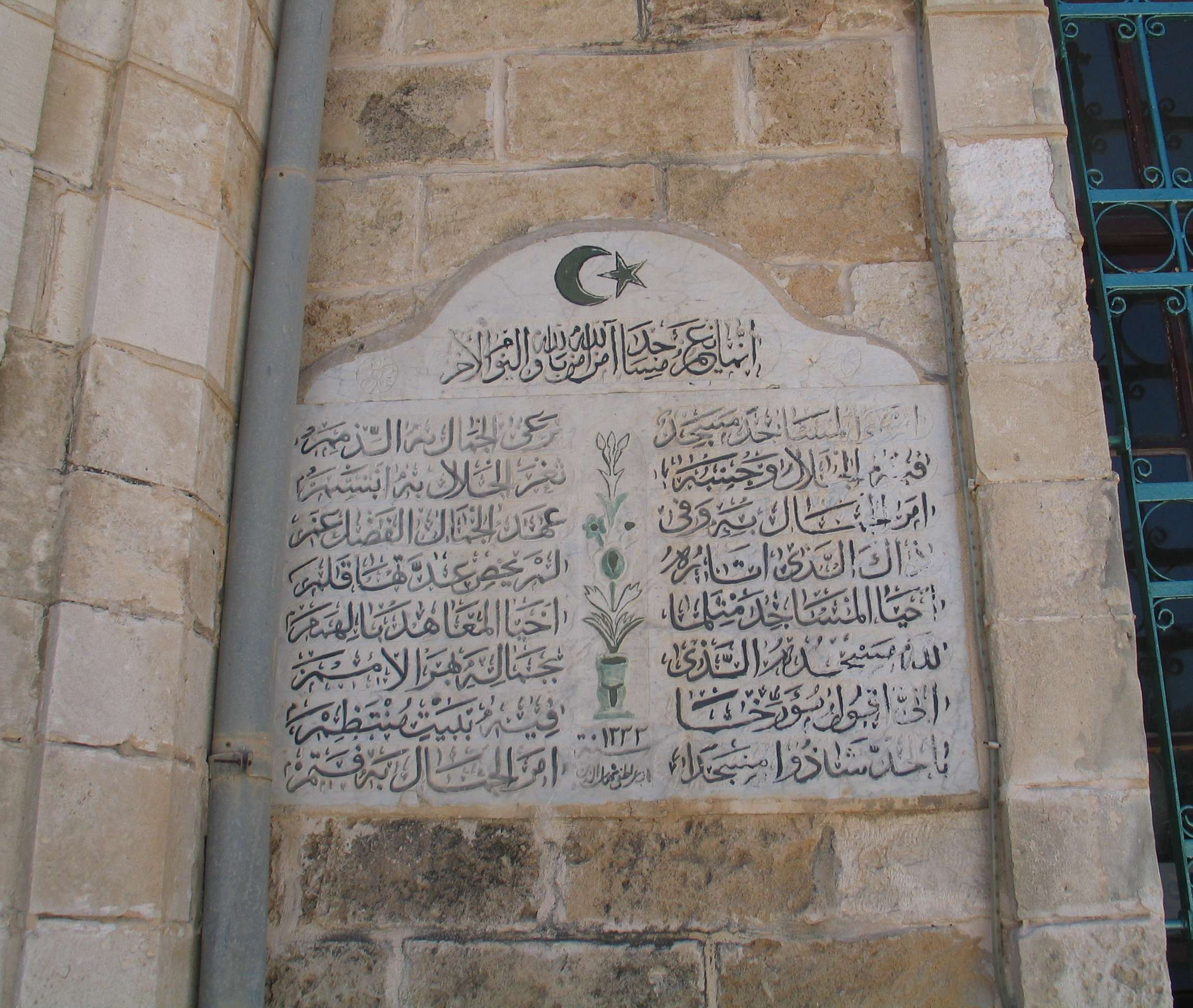 Hassan Bek mosque, Tel Aviv Yafo, Israel.